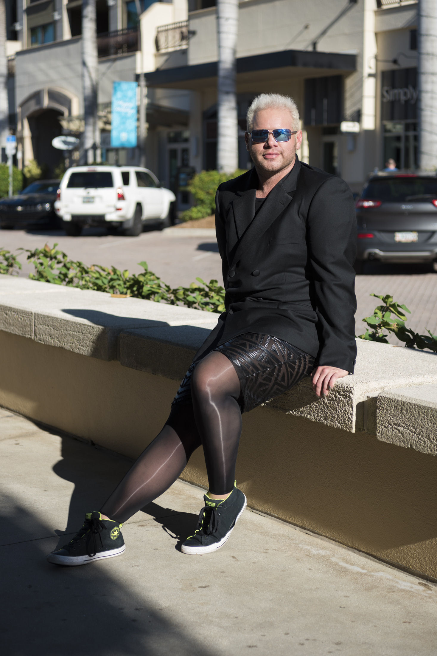 A male model wearing "mantyhose".